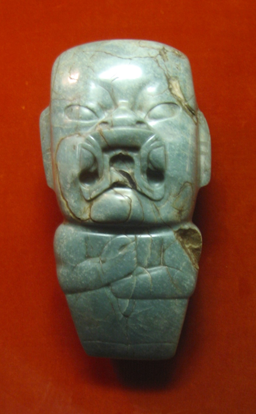 Kunz Axe; 1000-400 BC; jadeite; height: 31 cm (12​ 3⁄16 in.), width 16 cm (6​ 5⁄16 in.), 11 cm (4​ 5⁄16 in.); American Museum of Natural History (Washington D.C., USA) The famous Kunz Axe, reportedly found in the hills of Oaxaca in 1890. Named after George Kunz, this votive axe was one of the first artifacts to be identified with the Olmec civilization. The end comes to an edge, although it is very doubtful that the axe ever served more than a ritual function. Photo by Madman.